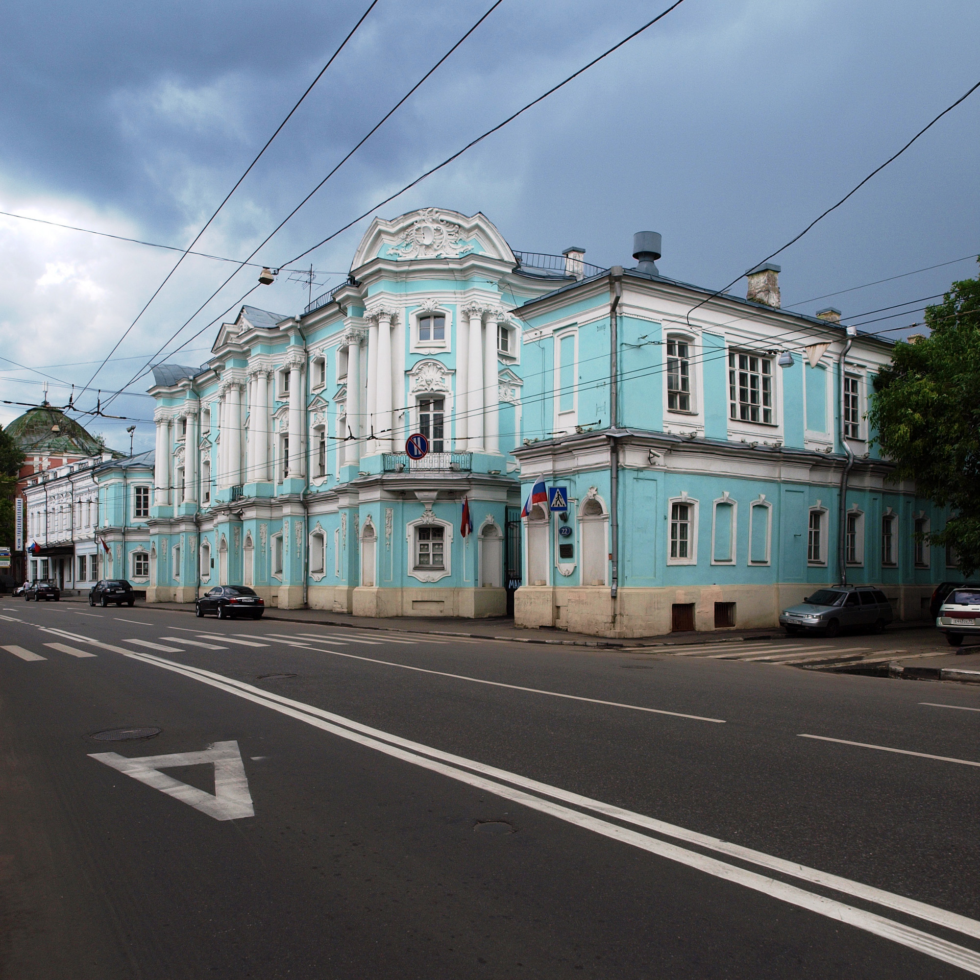 Moscow, 22 Pokrovka St - the Apraksin House (1760s).